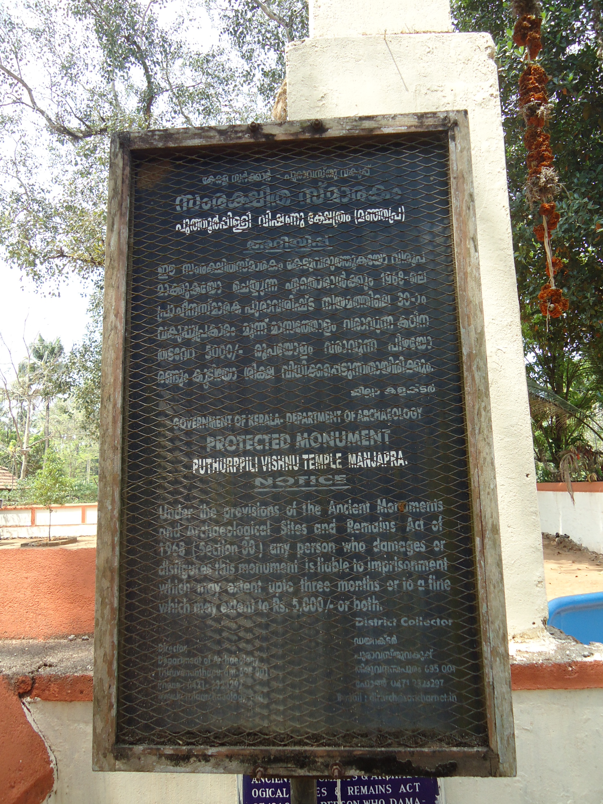 Puthoorpilli Sree Krishna Temple Majpara Board